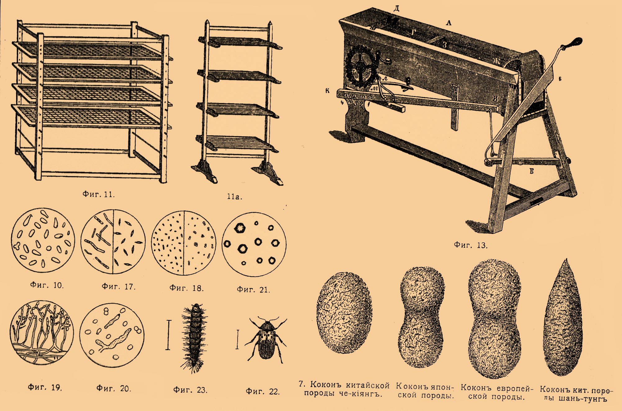 Illustration from Brockhaus and Efron Encyclopedic Dictionary (1890—1907)